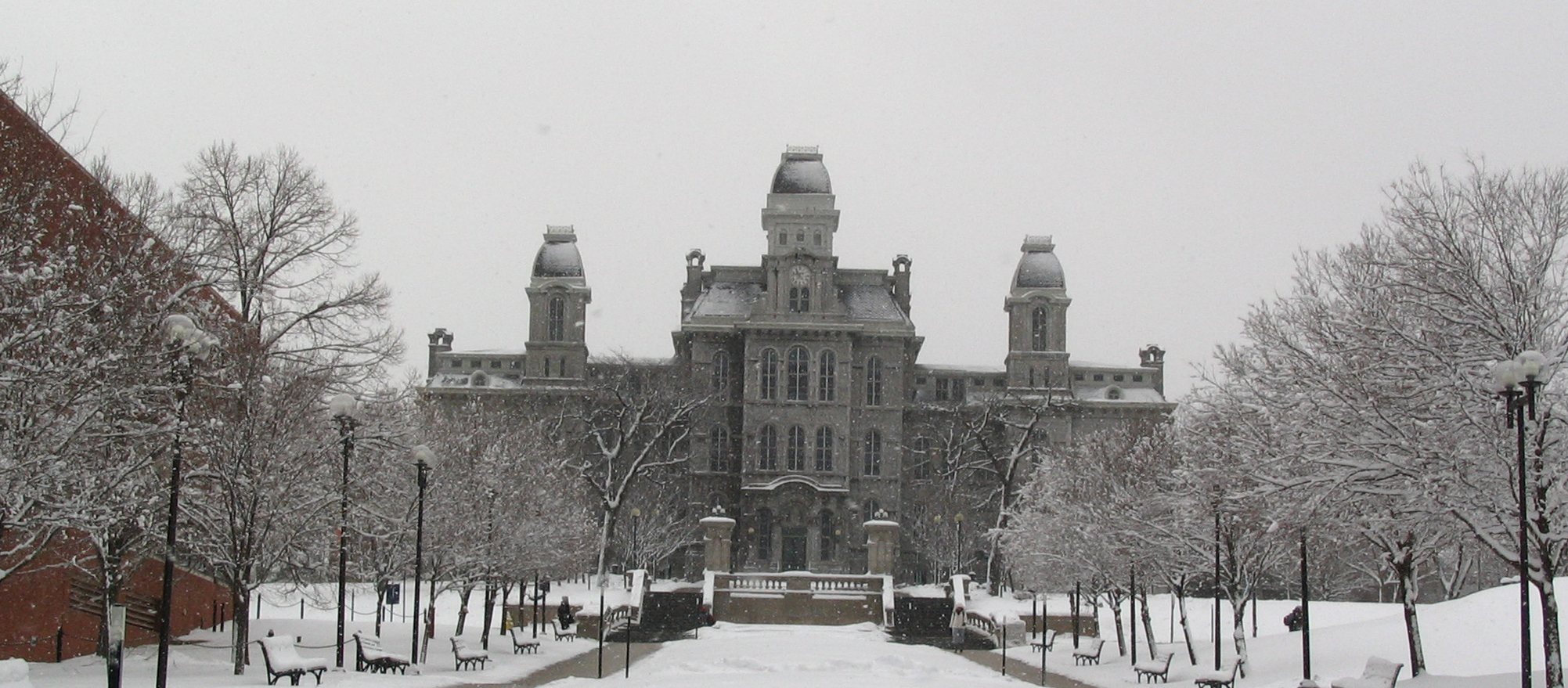 This is an image of the Hall of Languages during a snowstorm that I took with my digital camera. This building is located on Syracuse University.